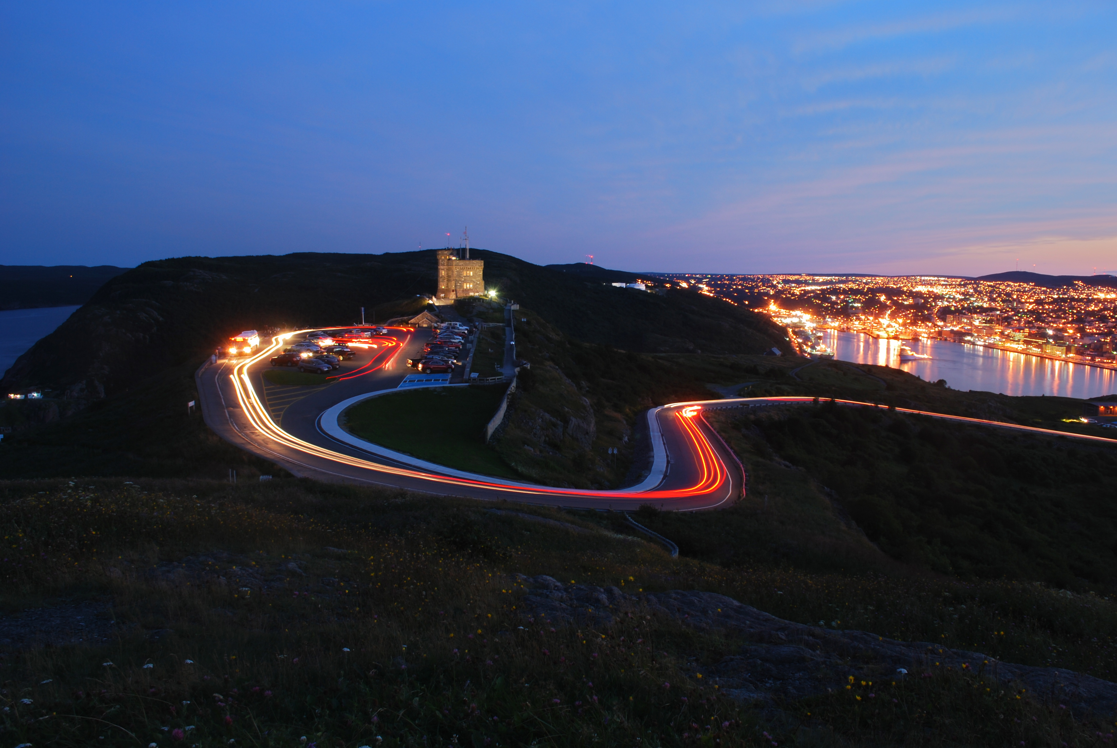 A night view of Cabot Tower with the city of St. John's seen in the background, Newfoundland and Labrador, Canada. There are no other words to describe the place. The edge of North America.